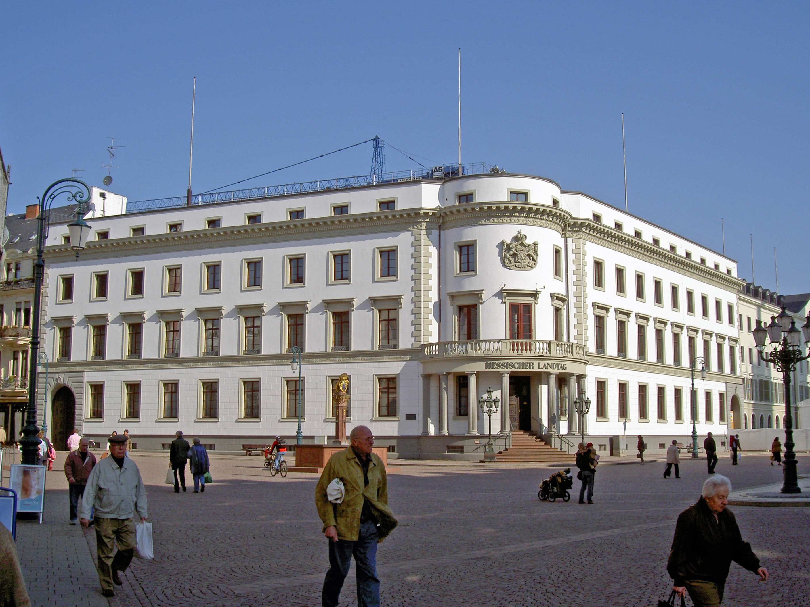 View over the palace square to the Ducal-Nassau city palace, the seat of the Hessian state parliament